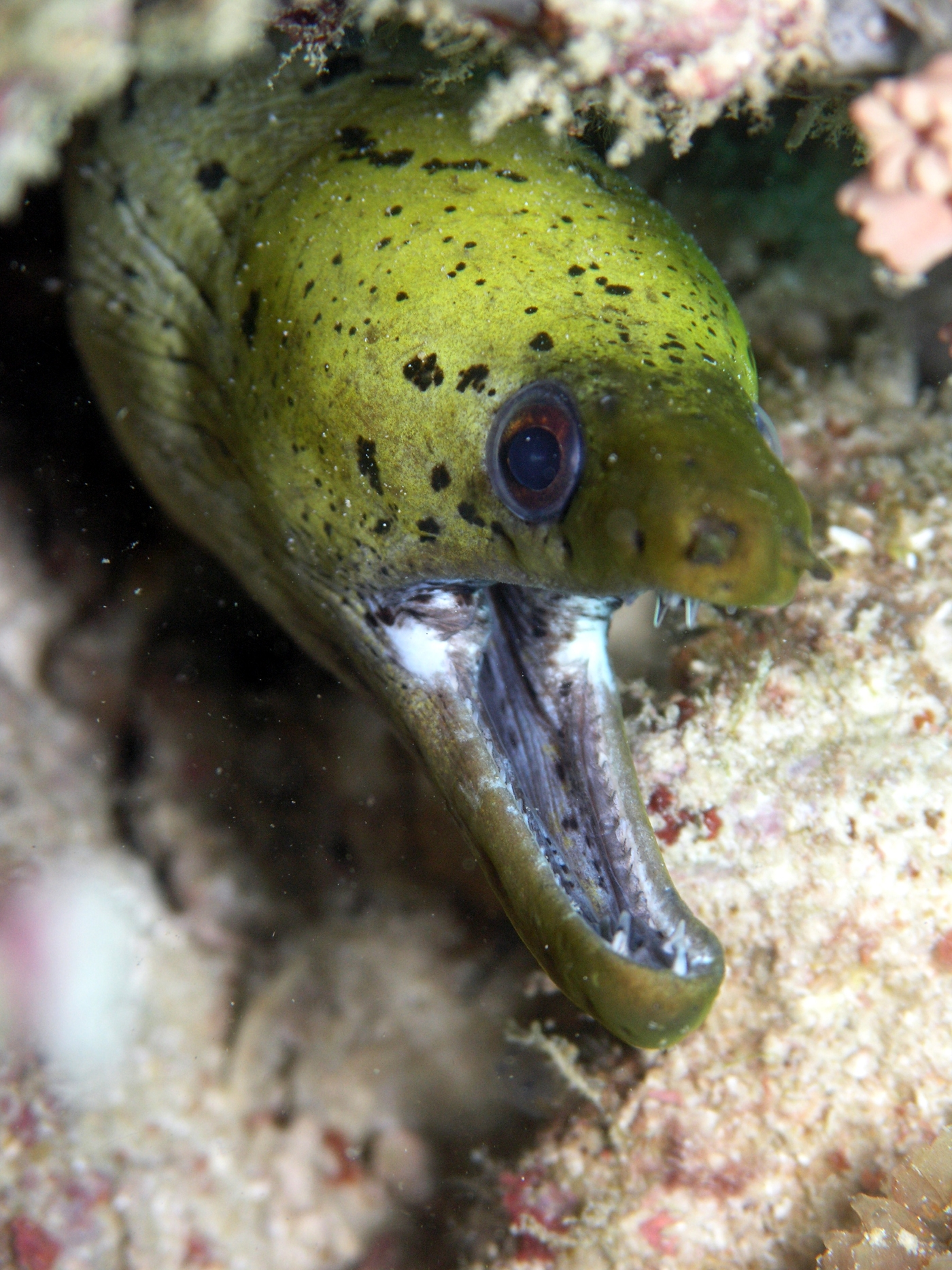 Image of fimbriated moray, Gymnothorax fimbriatus. Taken off Sipadan, Borneo, Malaysia.